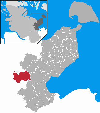 This map shows the area of the Gemeinde (municipality) Bosau in the Kreis (district) Ostholstein, Schleswig-Holstein, Germany.